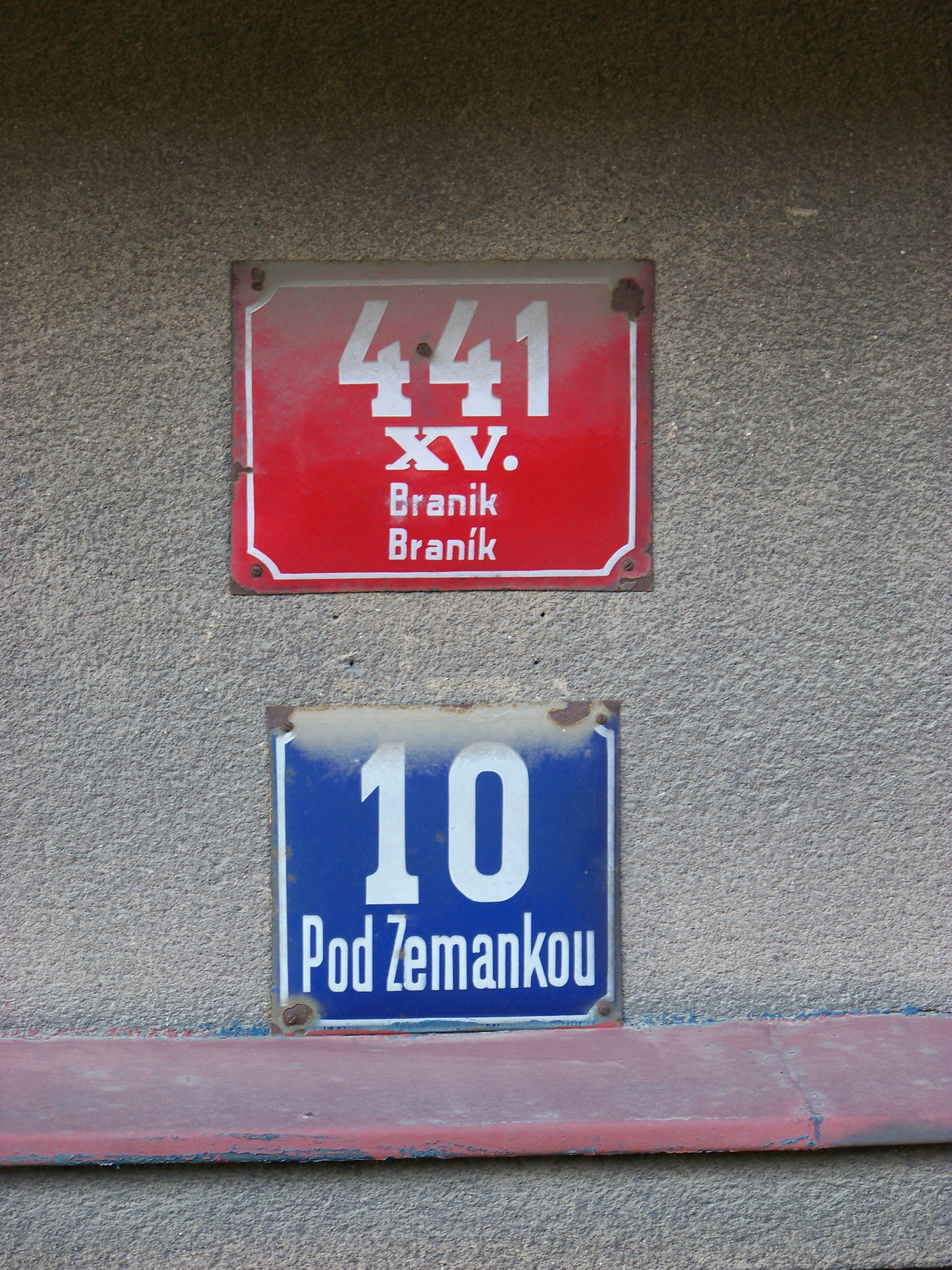 Prague-Braník, the Czech Republic. Pod Zemankou 441/10, house numbers.